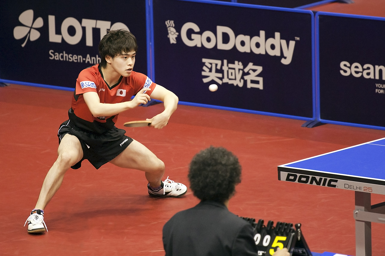 ITTF World Tour 2017 German Open, Magdeburg, Germany, 7 Nov 2017 - 12 Nov 2017, Masataka Morizono